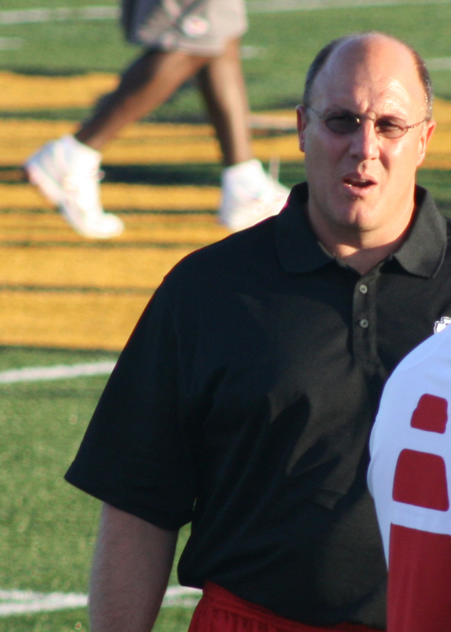 Kansas City Chiefs General Manager Scott Pioli at Training Camp, Missouri Western State University, St. Joseph, MO.